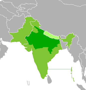 Map various Hindi languages, including Hindustani Dark green: Majority speak various Hindi languages Medium green: Standard Hindi or Urdu is an official language Light green: A Hindi language, such as Urdu, is widely understood